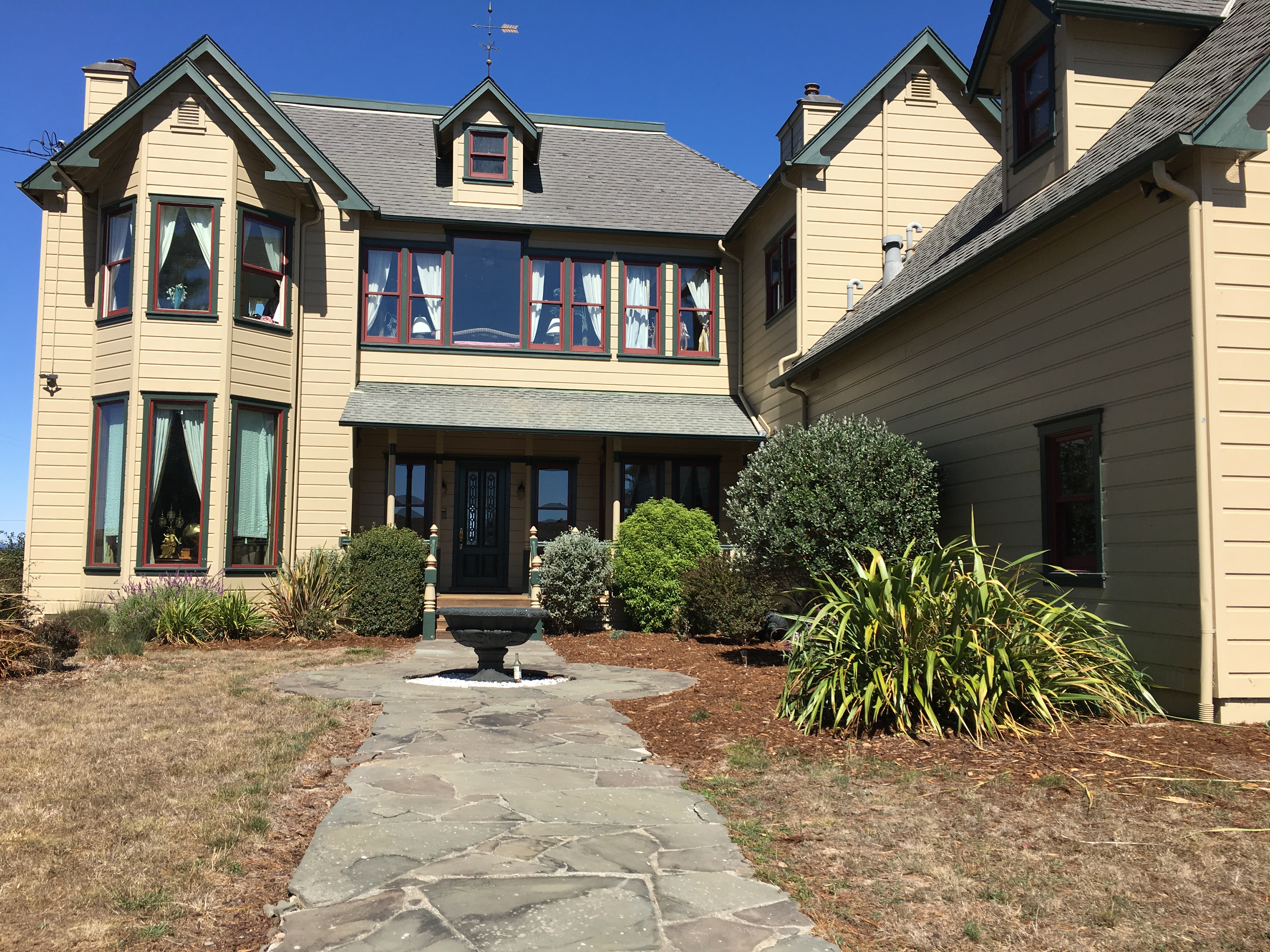 Stu Macher's house (in 2017), near Tomales, California.